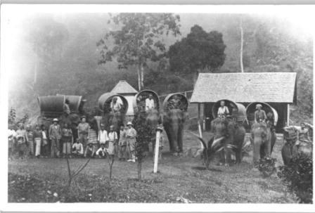 Elephants of Reman (c. late 19th century)